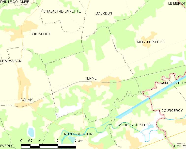 Map of French municipality Hermé